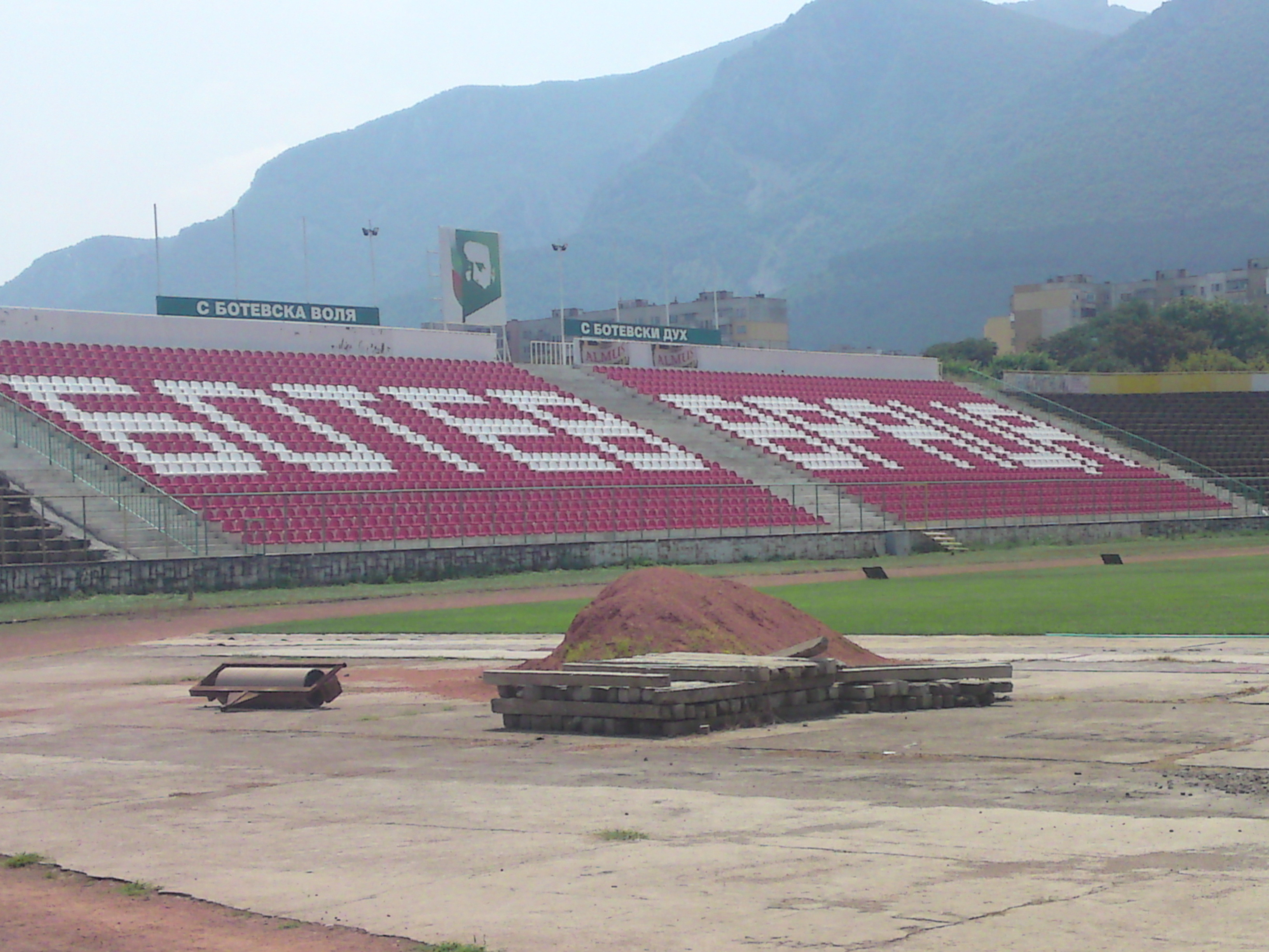 Botev Vratza